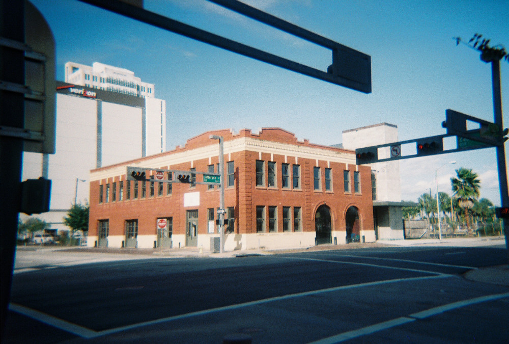 Old Fire Station No. 1, being converted into the Tampa Fire Department Museum, in Tampa, Florida